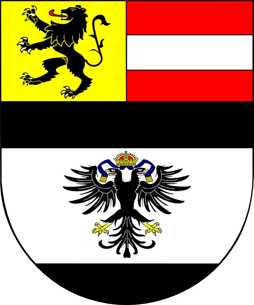 Coat of arms (shield only) of Hieronymus Joseph Franz de Paula Colloredo von Waldsee und Mels, bishop of Gurk, Austria (1761 - 1772), archbishop of Salzburg, Austria (1772 - 1812).